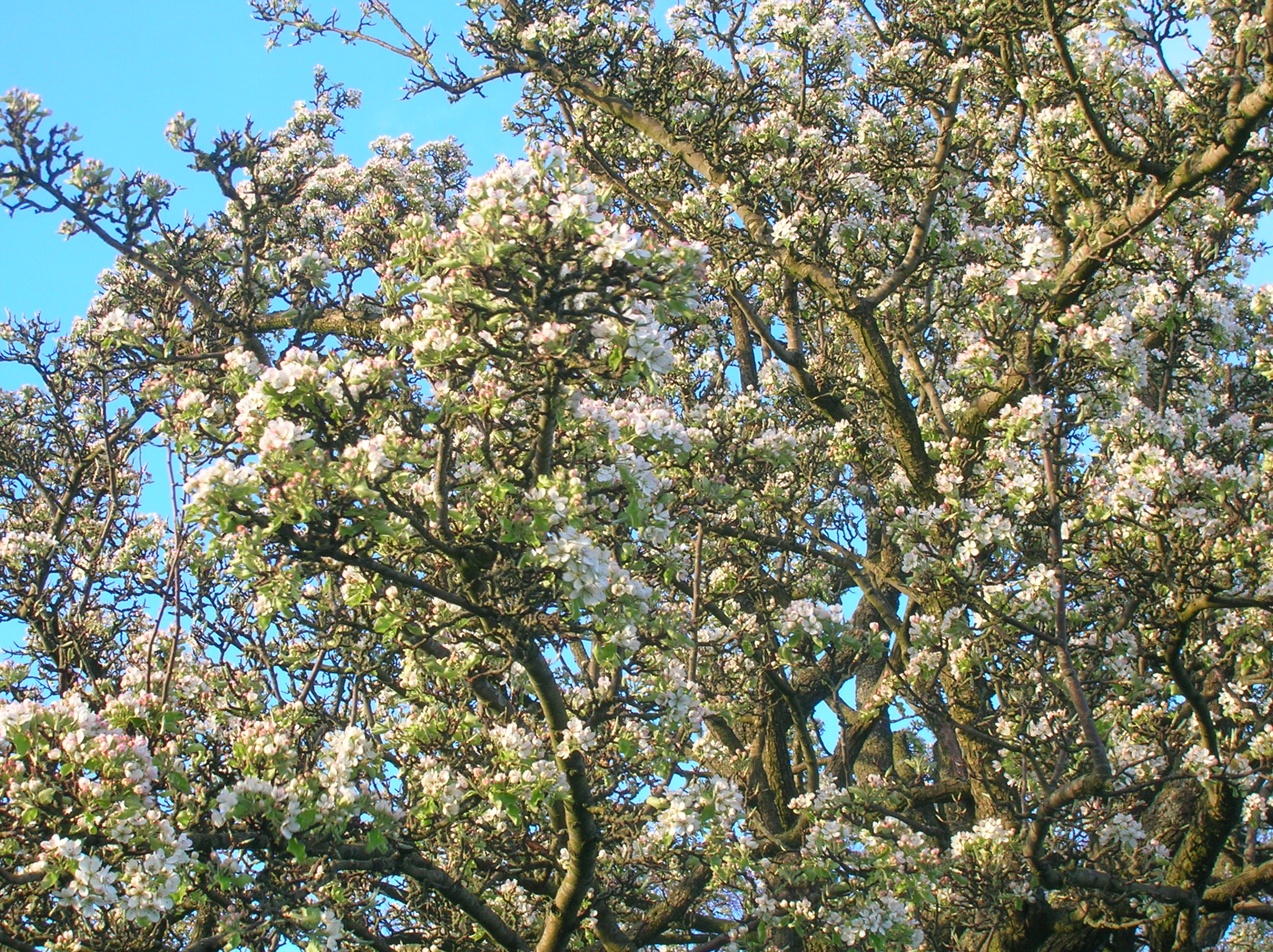 Wild Pear Tree (Pyrus pyraster) in full blossom. North Ayrshire, Scotland.